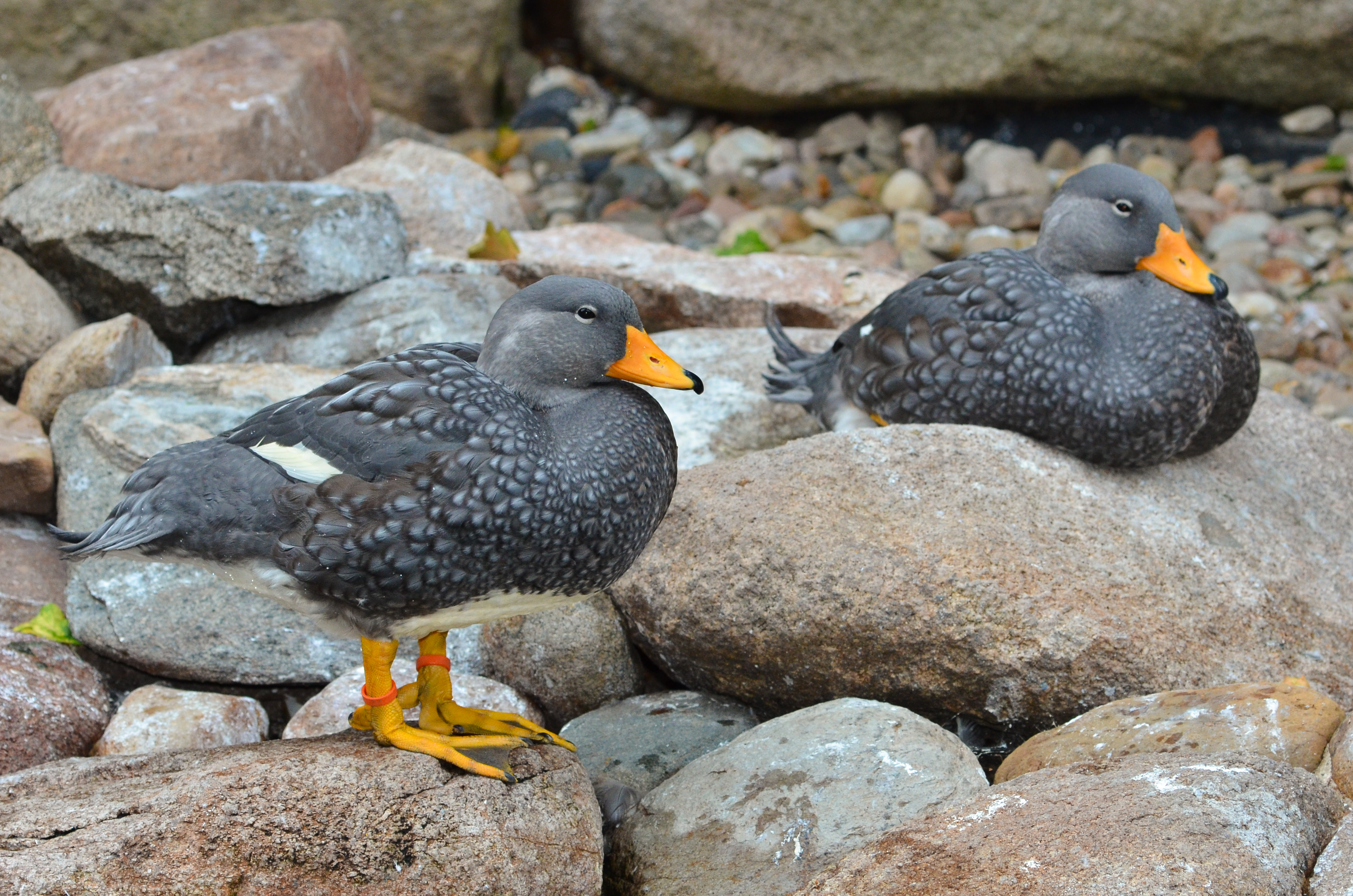 Fuegian Steamer Duck (Tachyeres pteneres) also called Magellanic Flightless Steamer Duck at Weltvogelpark Walsrode (Walsrode Bird Park, Germany)